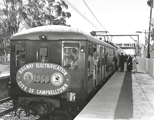 Glenfield Railway Station, opening of the electric railway to Campbelltown Dated: 04/05/1968 Digital ID: 17420_a014_a0140001185 Rights: No known copyright restrictions We'd love to hear from you if you use our photos. Many other photos in our collection are available to view and browse on our website using Photo Investigator.